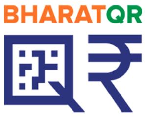 BharatQR Logo by NPCI